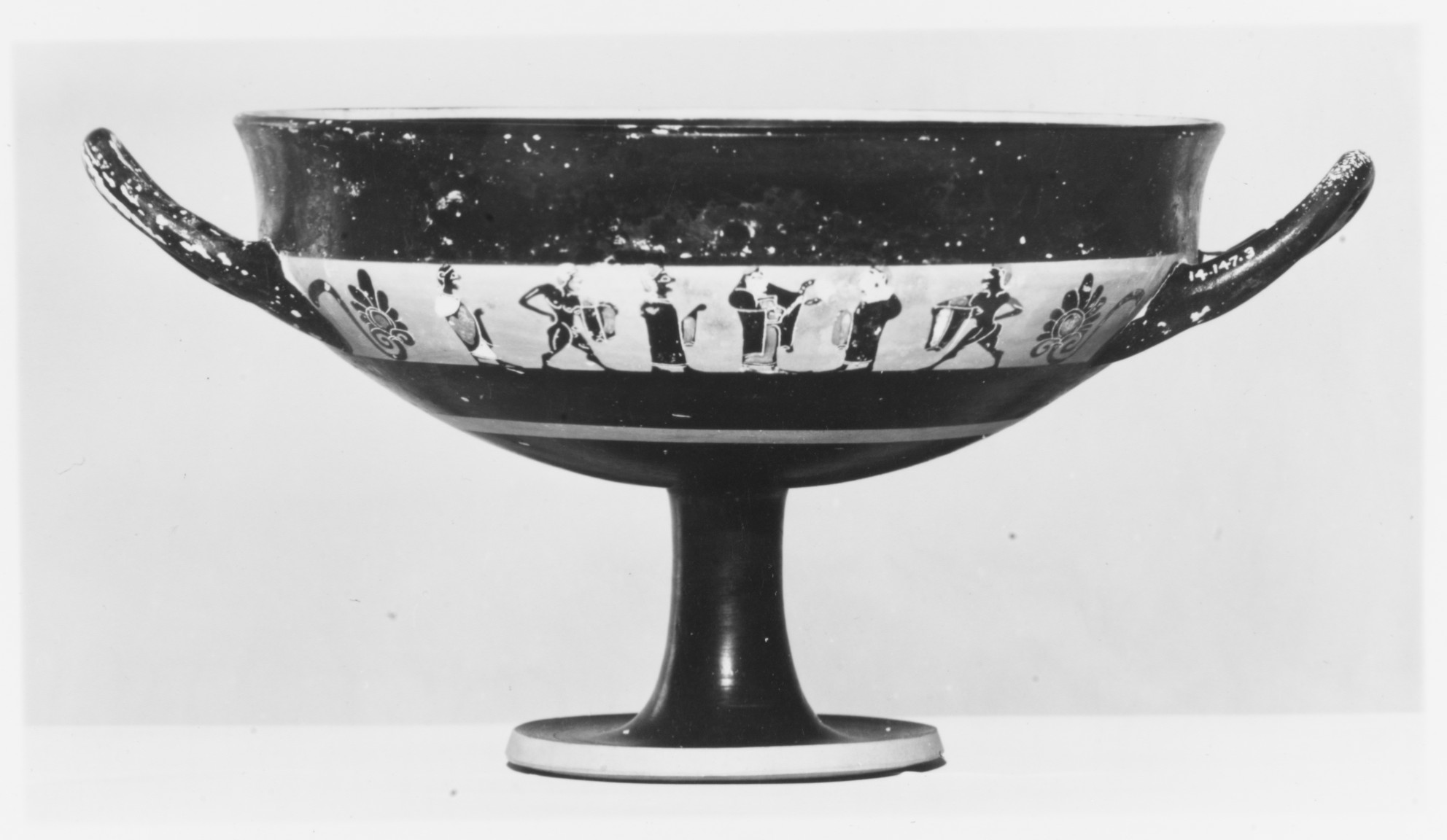 Greek, Attic; Kylix, band-cup; Vases; In band between handles, frieze of human figures between palmettes